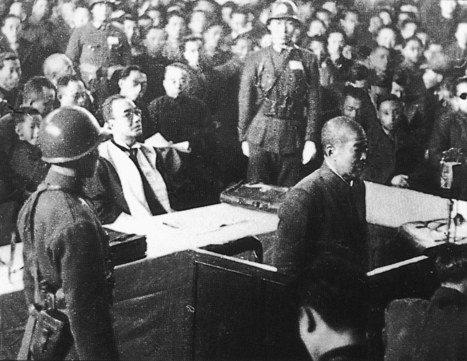 Tani Hisao on trial in Nanjing.